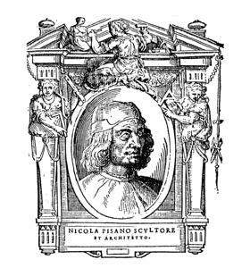 Illustratio from "Le Vite" by Giorgio Vasari, edition of 1568. For the artist portrayed see filename